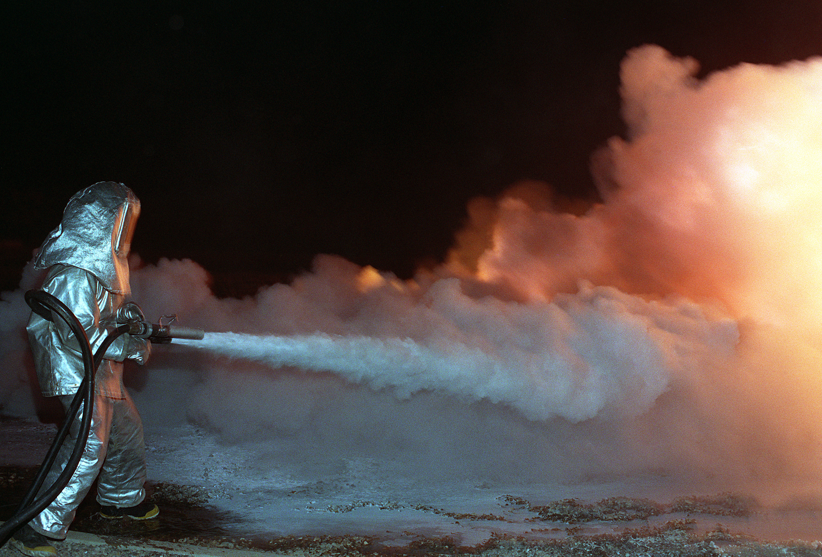 Senior Airman Jeffery Scales uses a hose to dispense a dry chemical fire suppressant during a fire fighting exercise. Scales is wearing a proximity suit.